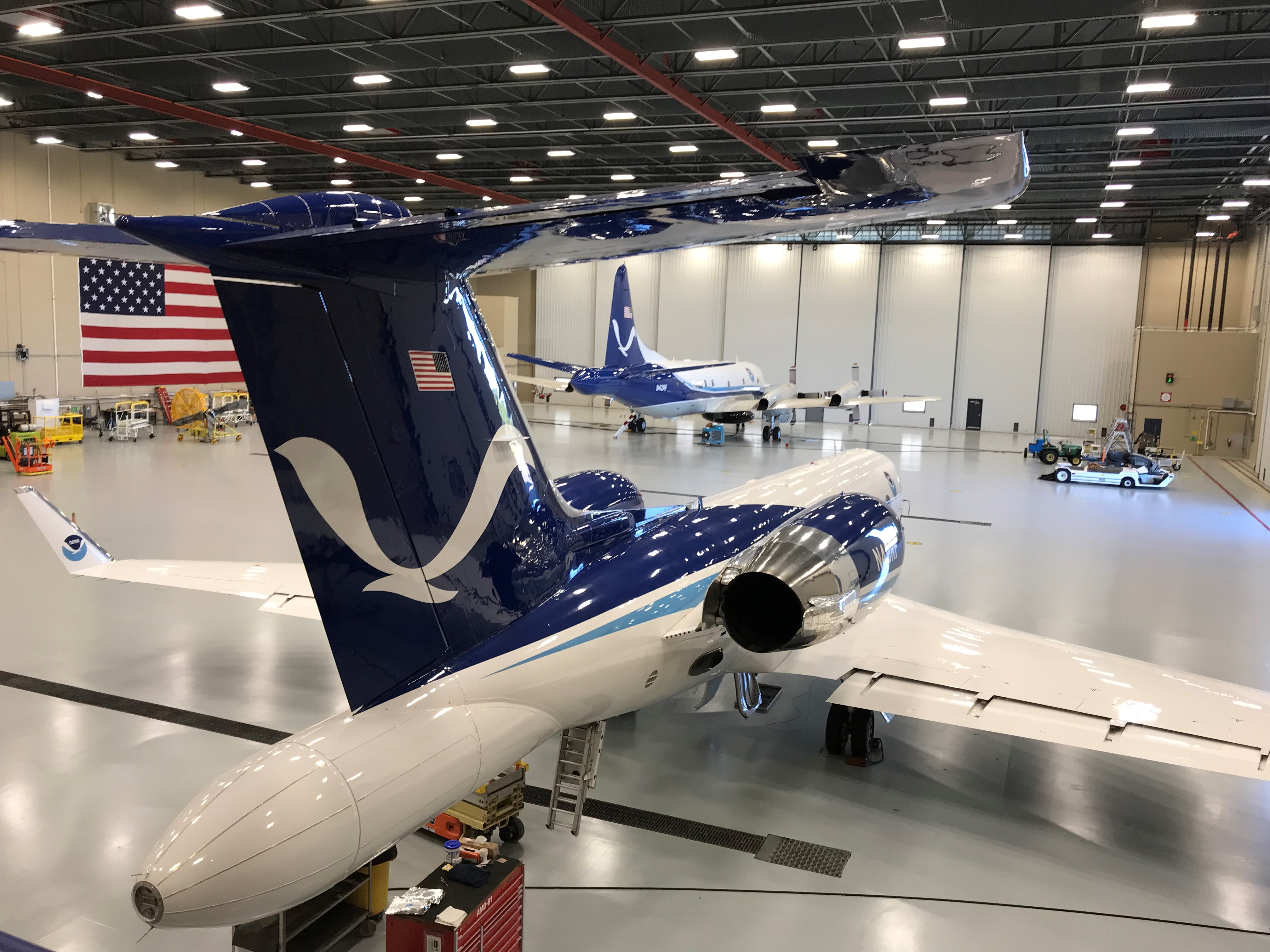 Noaa p3, and gulfstream in their hangar